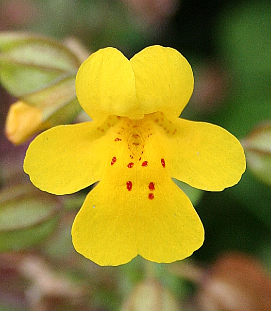 Monkey Flower (Mimulus guttatus) An introduced species commonly naturalised in ditches and damp places.